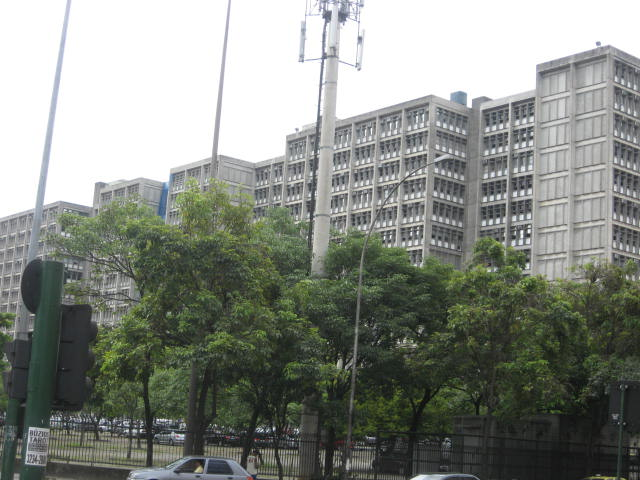 University Estadual Rio de Janeiro (UERJ)